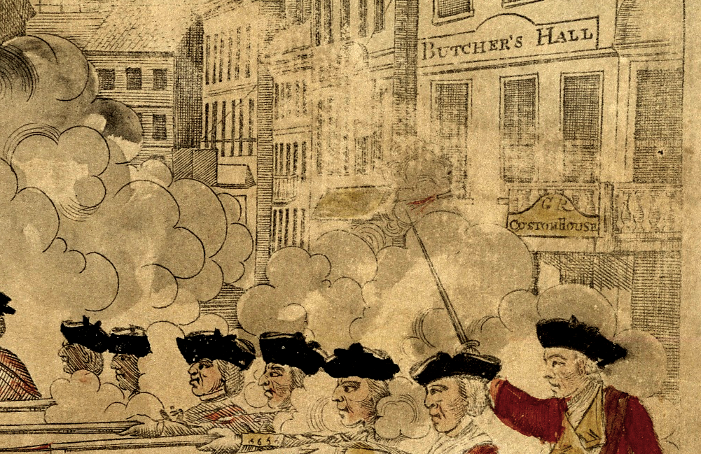 Detail showing the Boston Custom House on King Street, next to Butcher's Hall. From: The bloody massacre perpetrated in King Street Boston on March 5th 1770 by a party of the 29th Regt. A sensationalized portrayal of the skirmish, later to become known as the "Boston Massacre," between British soldiers and citizens of Boston on March 5, 1770. On the right a group of seven uniformed soldiers, on the signal of an officer, fire into a crowd of civilians at left. Three of the latter lie bleeding on the ground. Two other casualties have been lifted by the crowd. In the foreground is a dog; in the background are a row of houses, the First Church, and the Town House. Behind the British troops is another row of buildings including the Royal Custom House, which bears the sign (perhaps a sardonic comment) "Butcher's Hall." Beneath the print are 18 lines of verse, which begin: "Unhappy Boston! see thy Sons deplore, Thy hallowed Walks besmeared with guiltless Gore." Also listed are the "unhappy Sufferers" Saml Gray, Saml Maverick, James Caldwell, Crispus Attucks, and Patrick Carr (killed) and it is noted that there were "Six wounded; two of them (Christr Monk & John Clark) Mortally." 1 print : engraving with watercolor, on laid paper ; 25.8 x 33.4 cm. (plate)